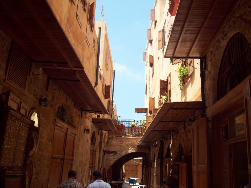 Old city, Saida/Sidon, Lebanon